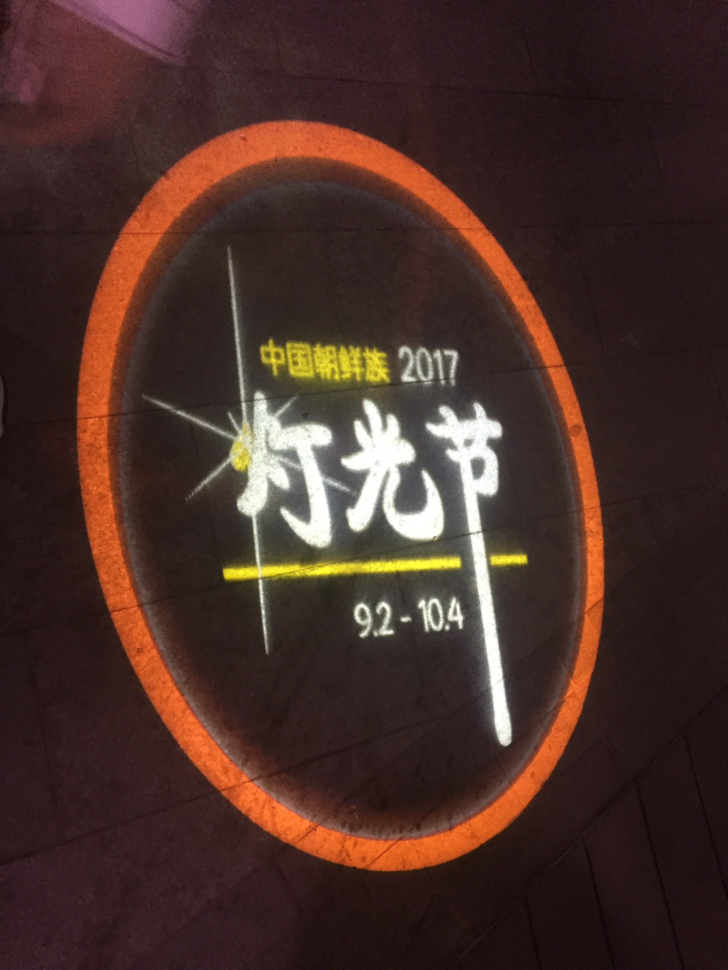 2017 CXZ Light Festival - Logo on the ground